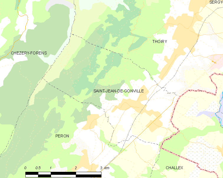 Map of French commune: Saint-Jean-de-Gonville Map commune FR insee code 01360.png